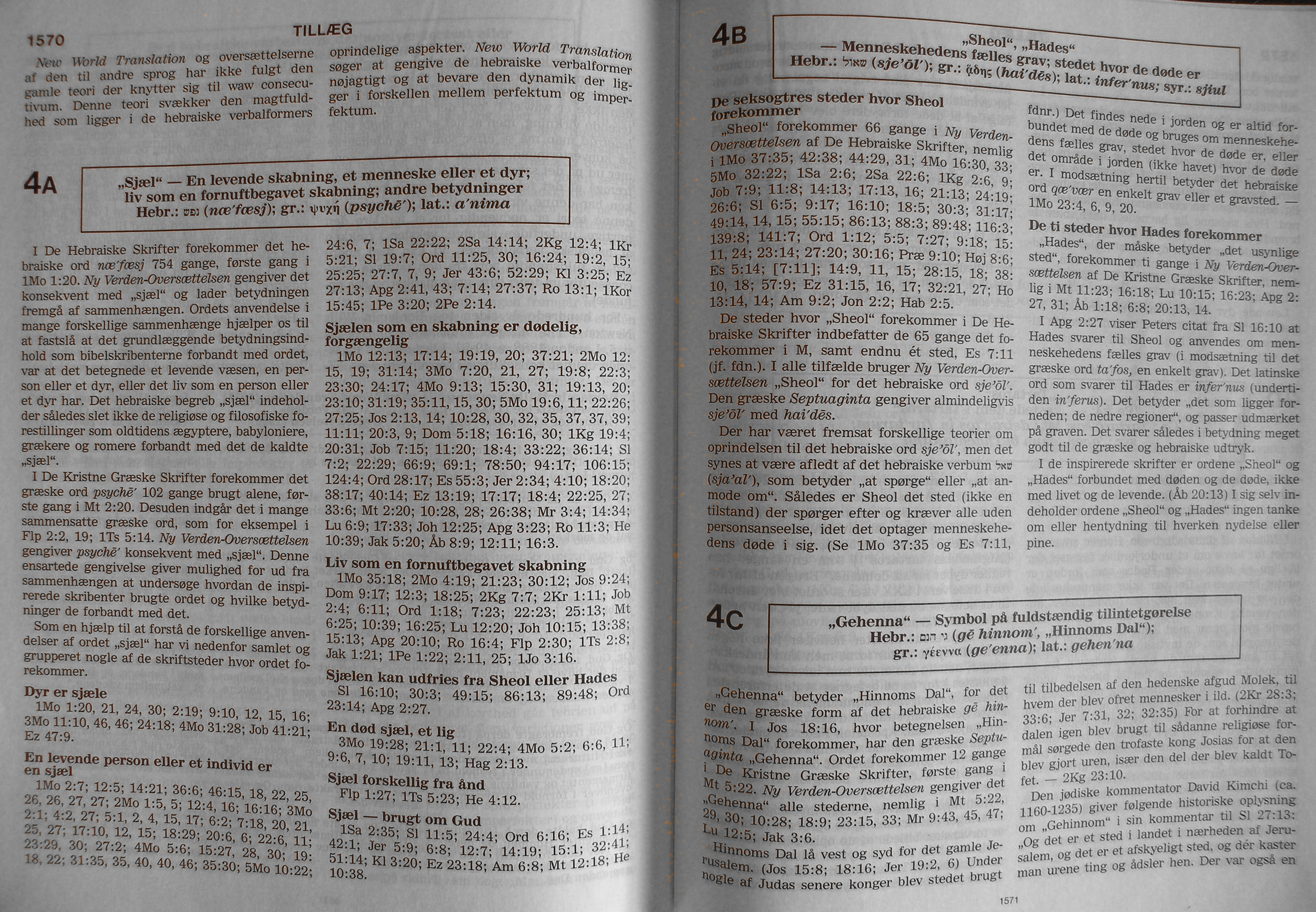 Example of appendix from New World Translation of The Holy Scriptures, study edition, Danish